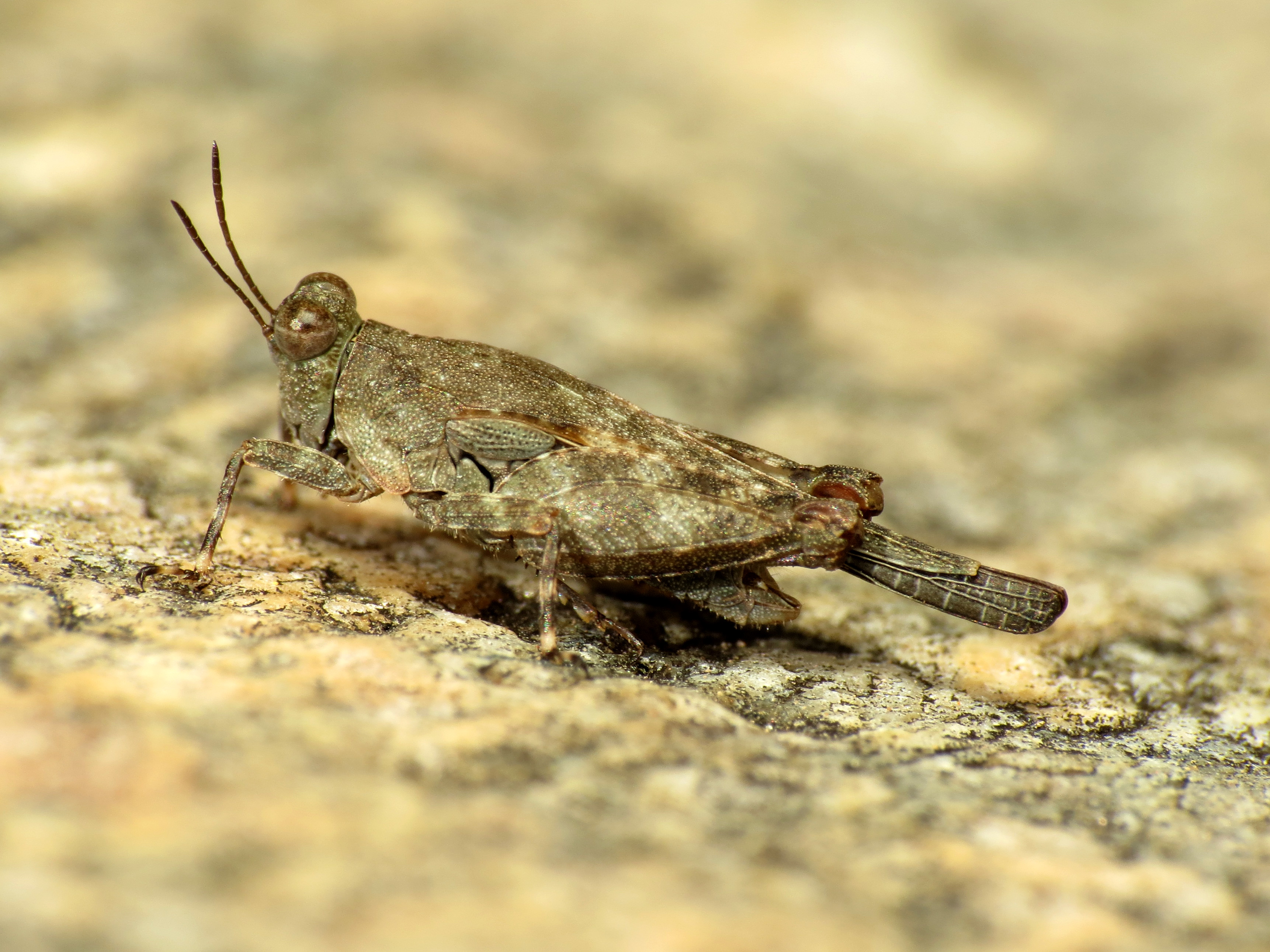 Paratettix aztecus. Sabino Canyon, Santa Catalina Mountains, Tucson, Arizona, USA. Tons of these little guys on the granite boulders in Sabino Creek.